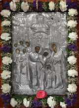 Icon from Petra Monastery in Olympus